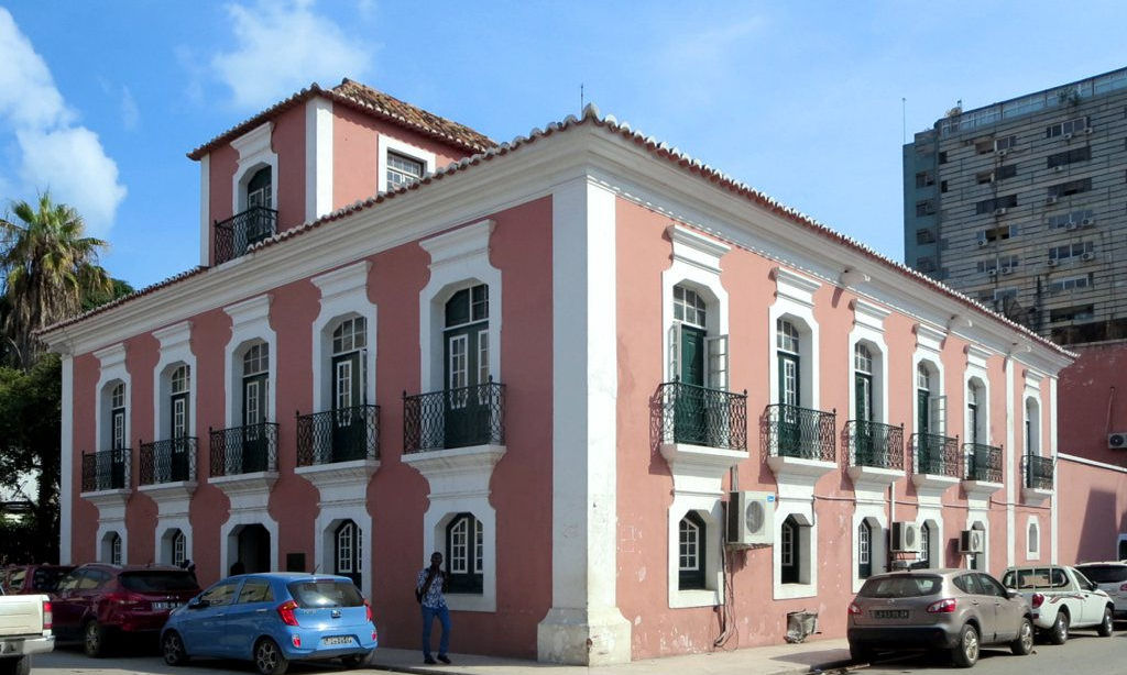 The Museu Nacional de Antropologia in Luanda, Angola, occupies the 18th century Palacio da Nobreza. Masks, tools, weaponry, clothing, and musical instruments are on display.